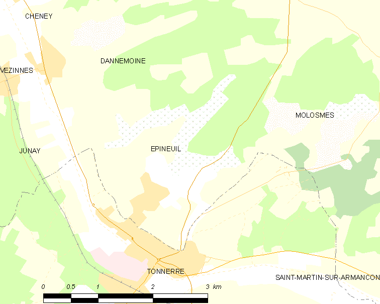 Map of French municipality Épineuil